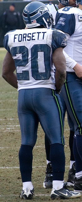 Seattle vs. Green Bay • December 27, 2009 at Lambeau Field in Green Bay, Wisconsin.